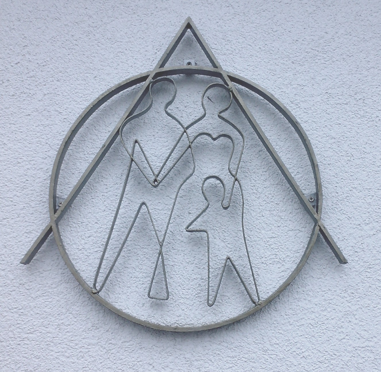 Logo of a community centre ("Dorfgemeinschaftshaus"), Hesse, Germany